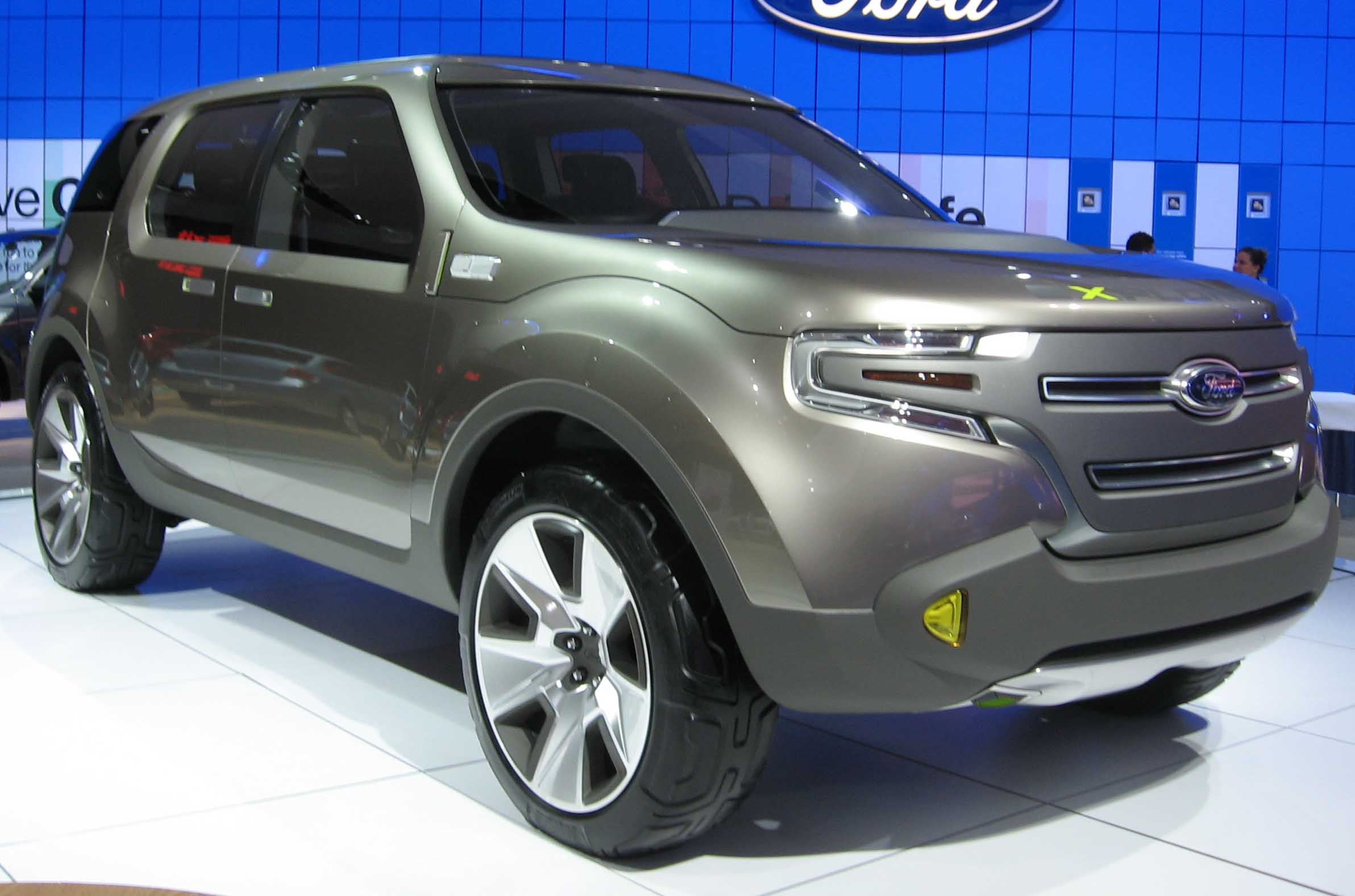 Ford Explorer America concept photographed at the 2008 New York Auto Show.